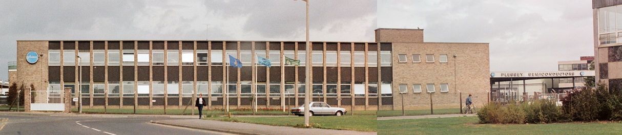 Plessey Semiconductors factory, Cheney Manor, Swindon in 1982. The works housed both Bipolar and MOS production lines